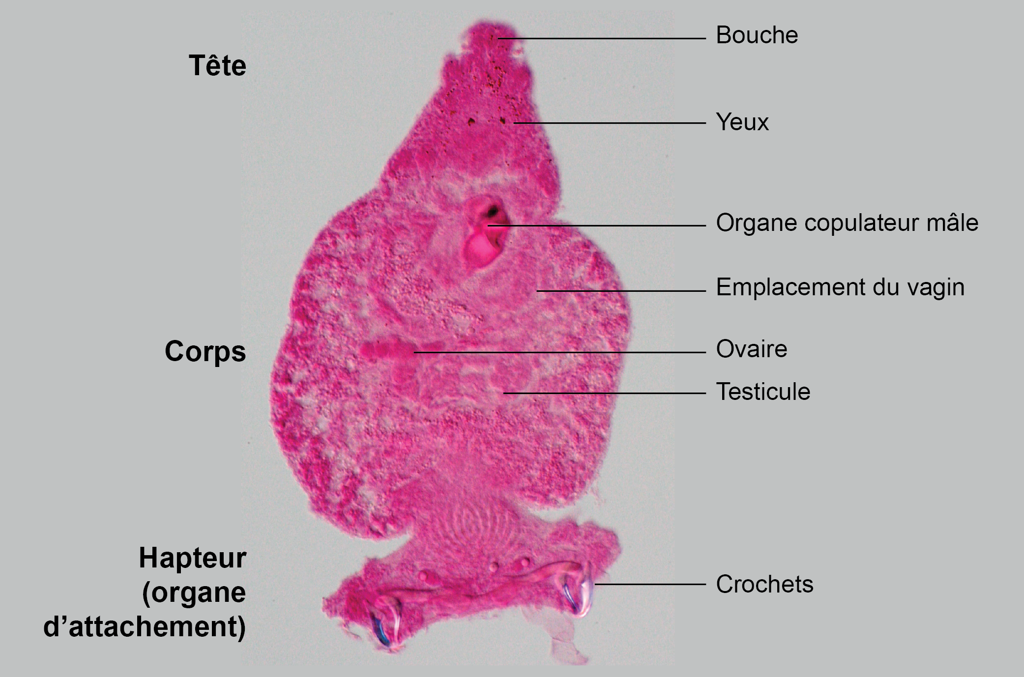 The monogenean Pseudorhabdosynochus morrhua.